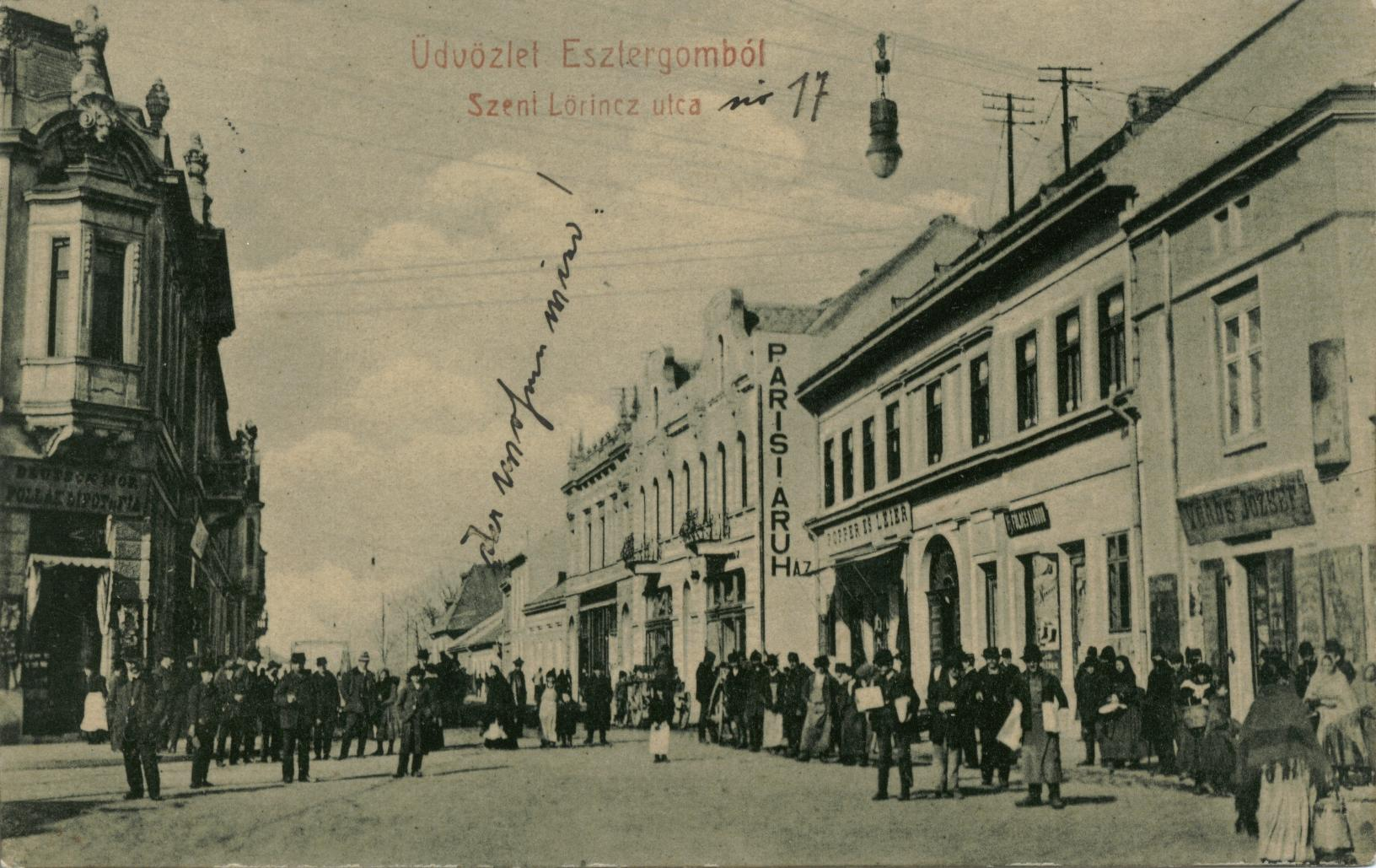 Lőrinc street in Esztergom, Hungary in the early 20th century. (Postcard)